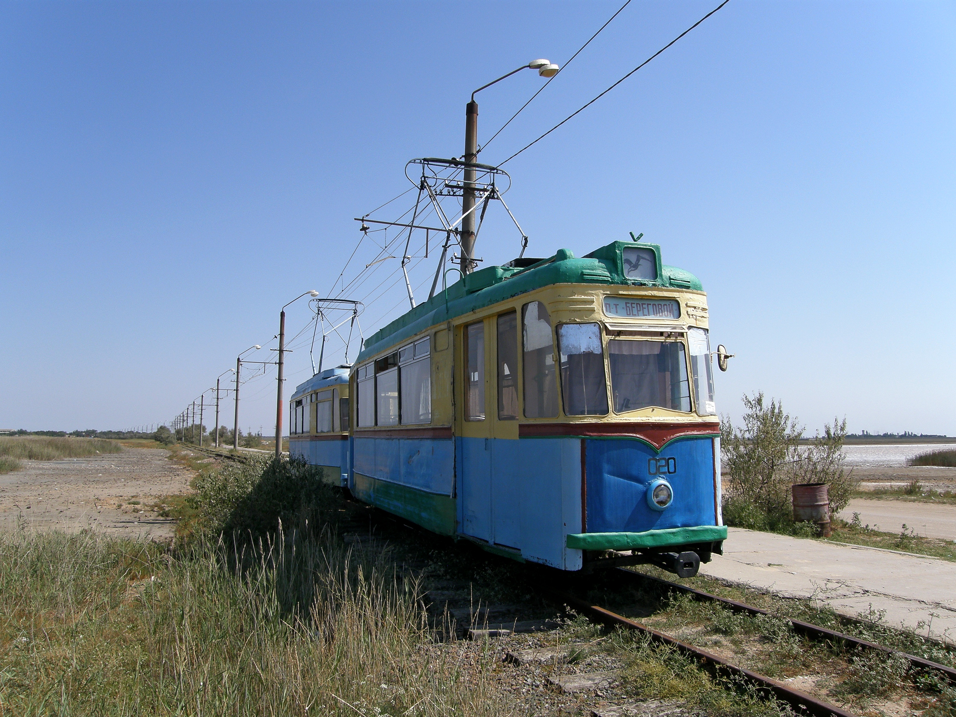 Tram Gotha T57 in the village Molochne, Saky Raion, Crimea, Ukraine